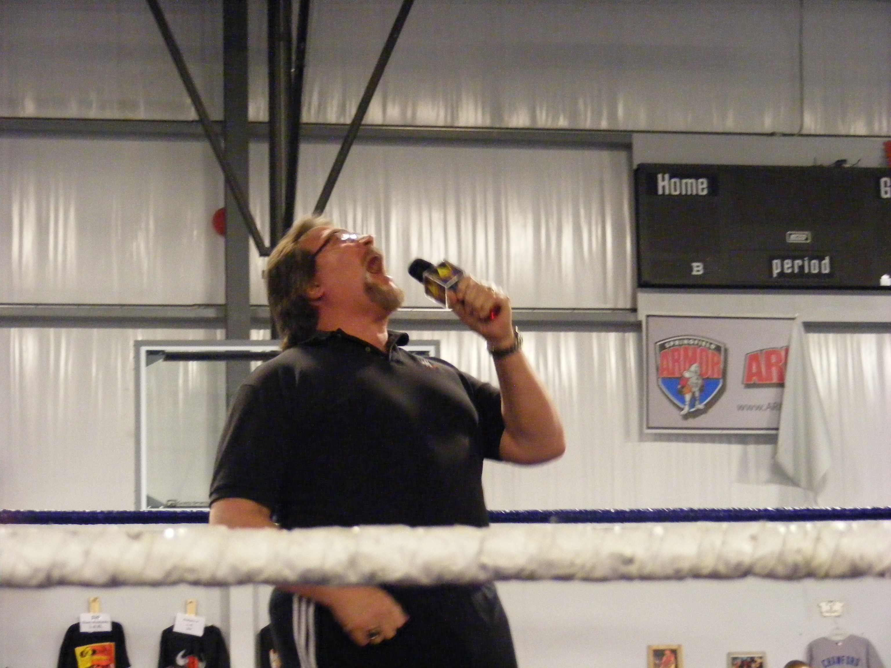 Million Dollar Man Ted DiBiase in the midst of his trademark laugh; BTW show in Chicopee, MA on March 26, 2011.